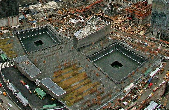 Photo of the 9/11 memorial taken from the World Financial Center, as it appeared in January 2012.